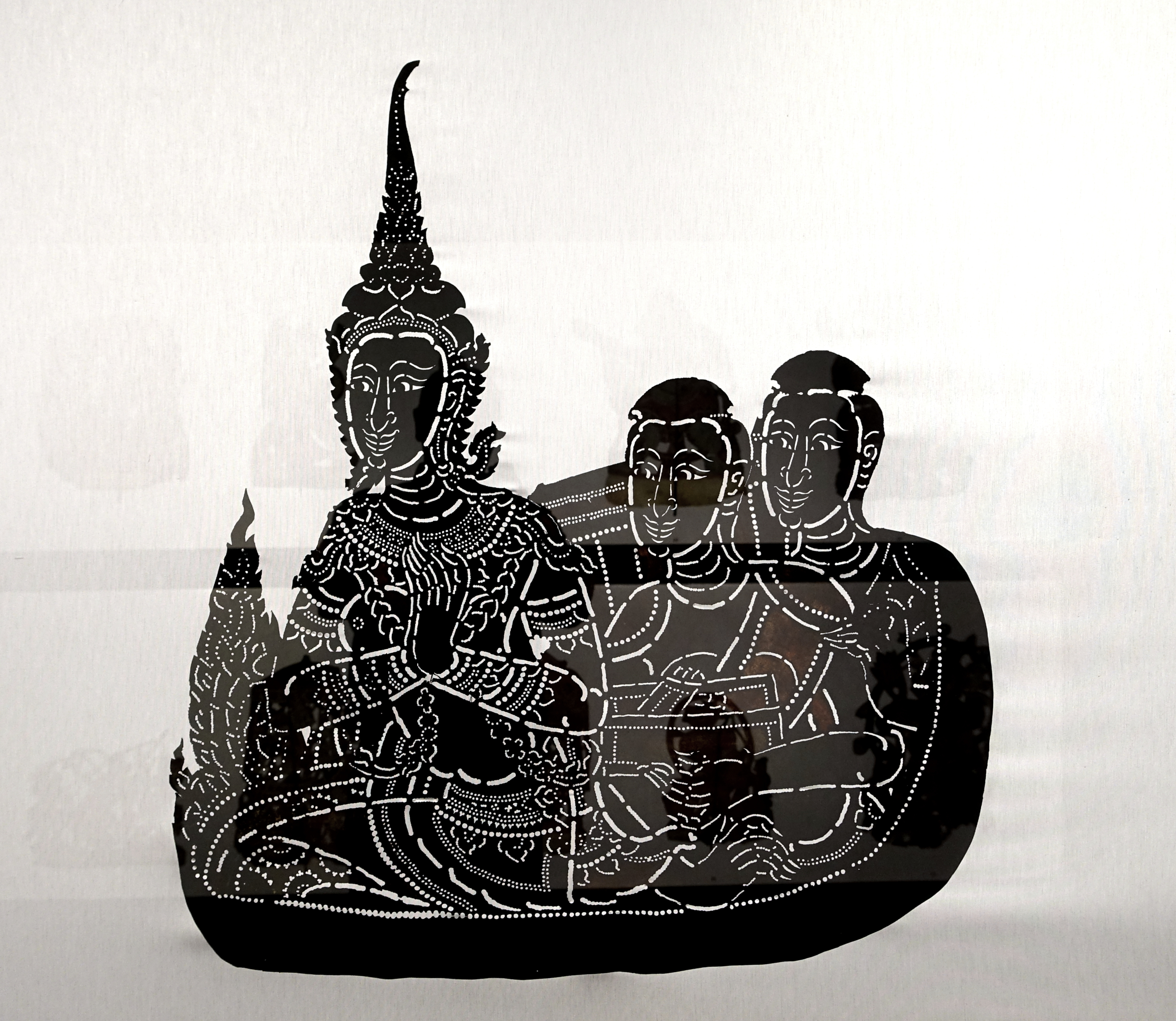 Exhibit in the Museu do Oriente - Lisbon, Portugal. This work is old enough so that it is in the public domain.